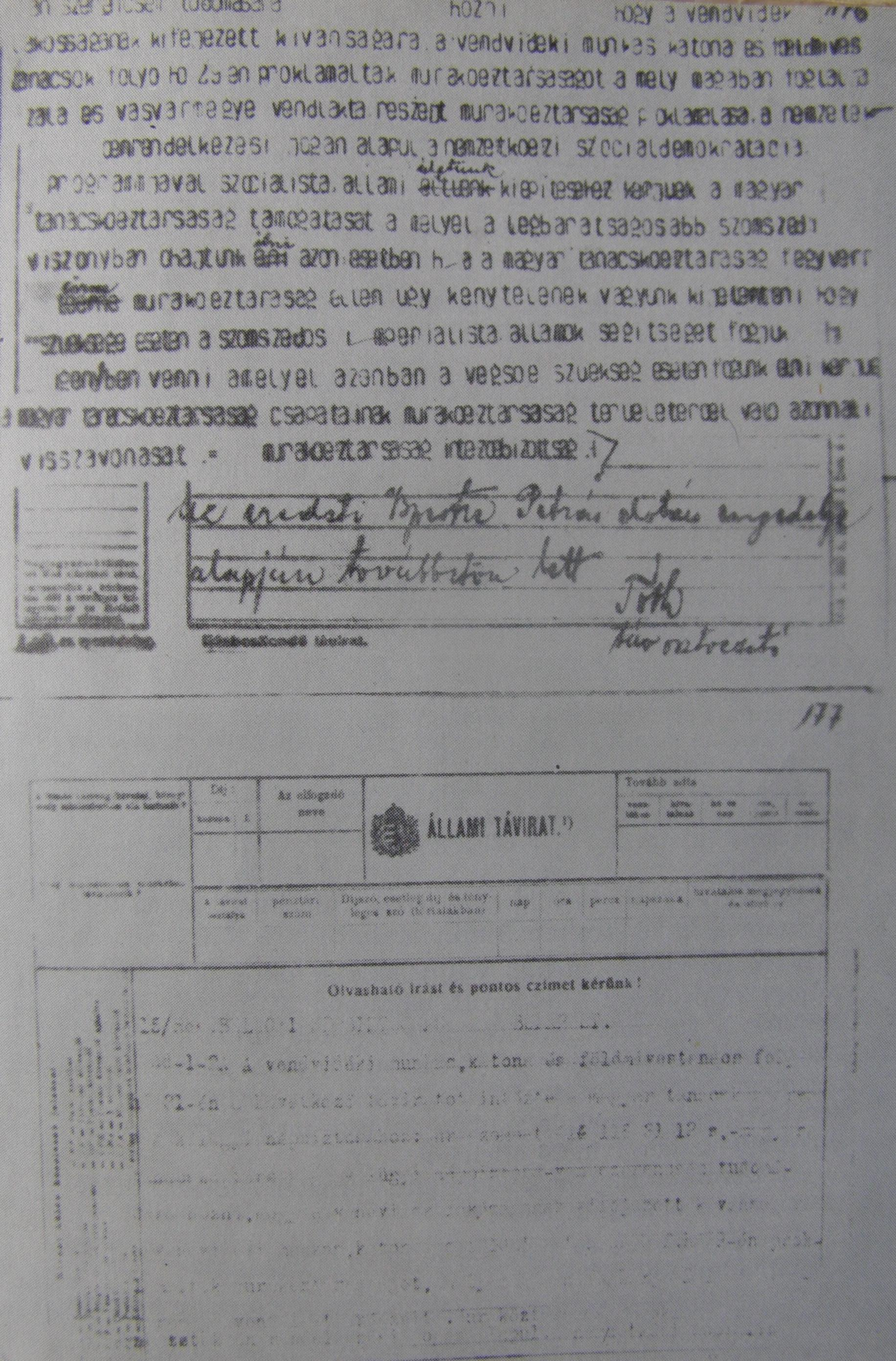 The telegraph of Vilmos Tkálecz for Béla Kun.